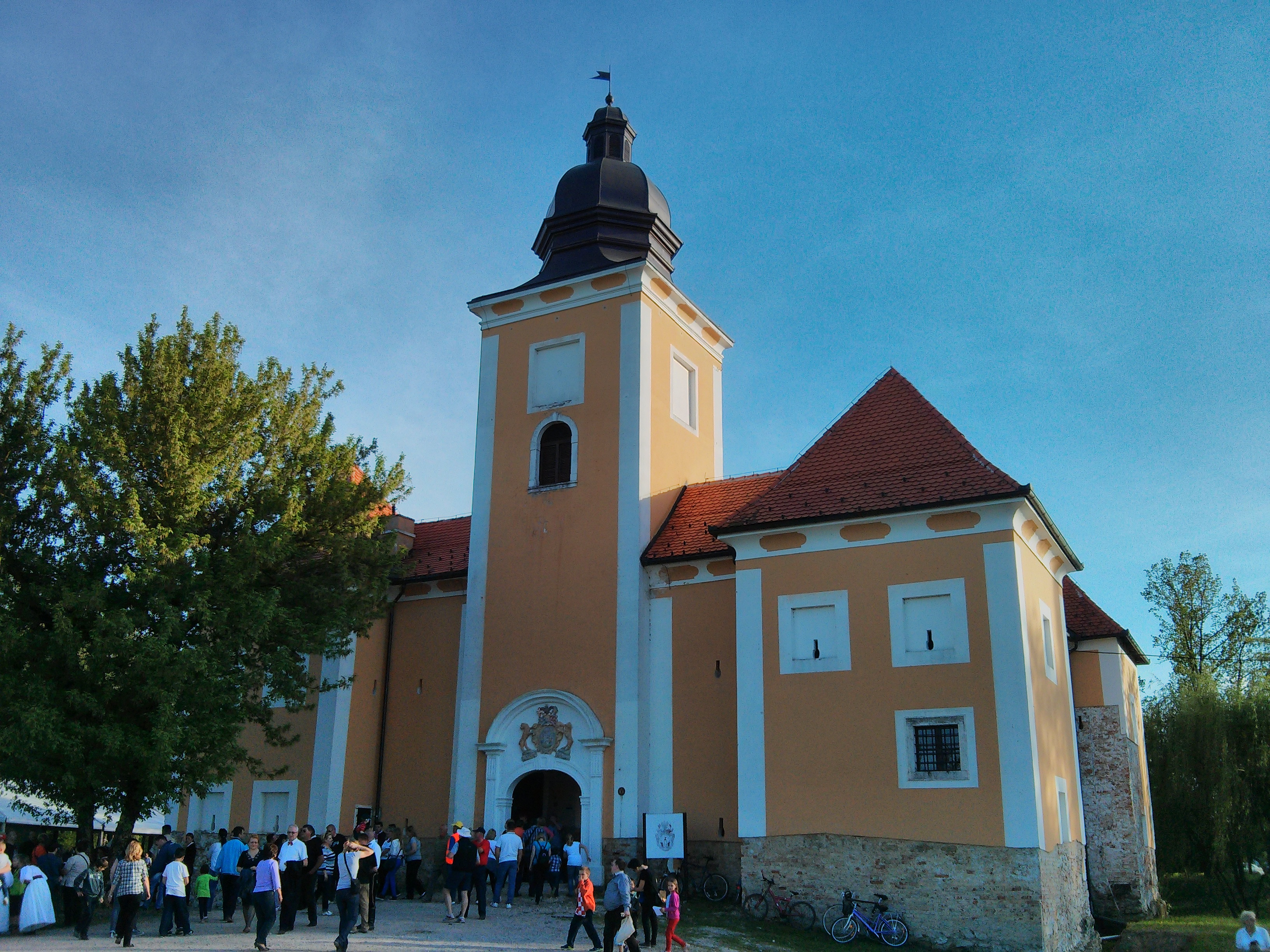 The Old Town of Lukavec